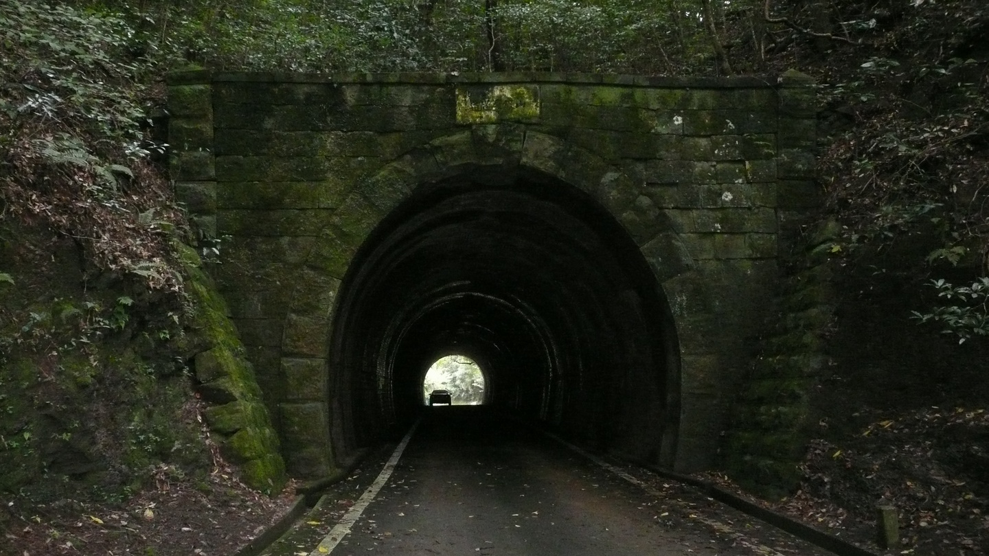 Yamagariya Tunnel on the old Miyazaki Prefectural Road Route 27 in Kitago Town, Nichinan City